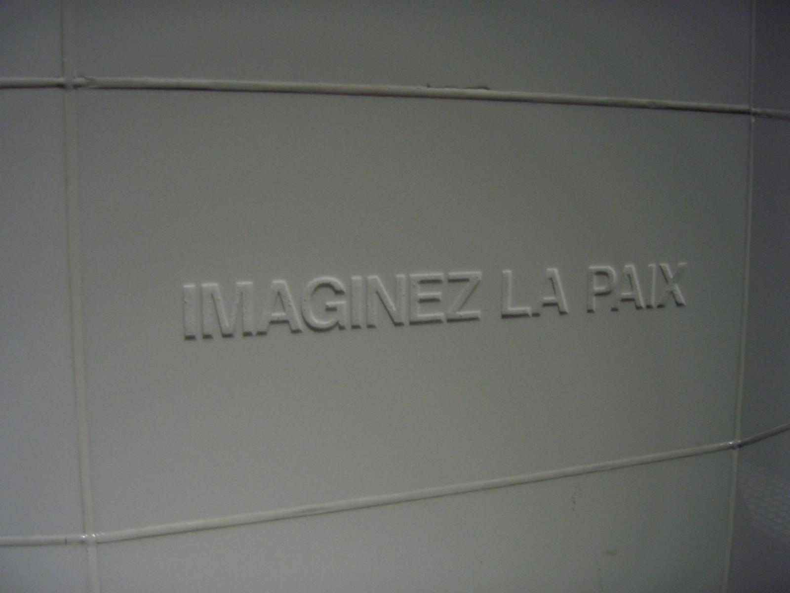 One of 25 languages that the words "Imagine Peace" is written on the Imagine Peace Tower in Iceland